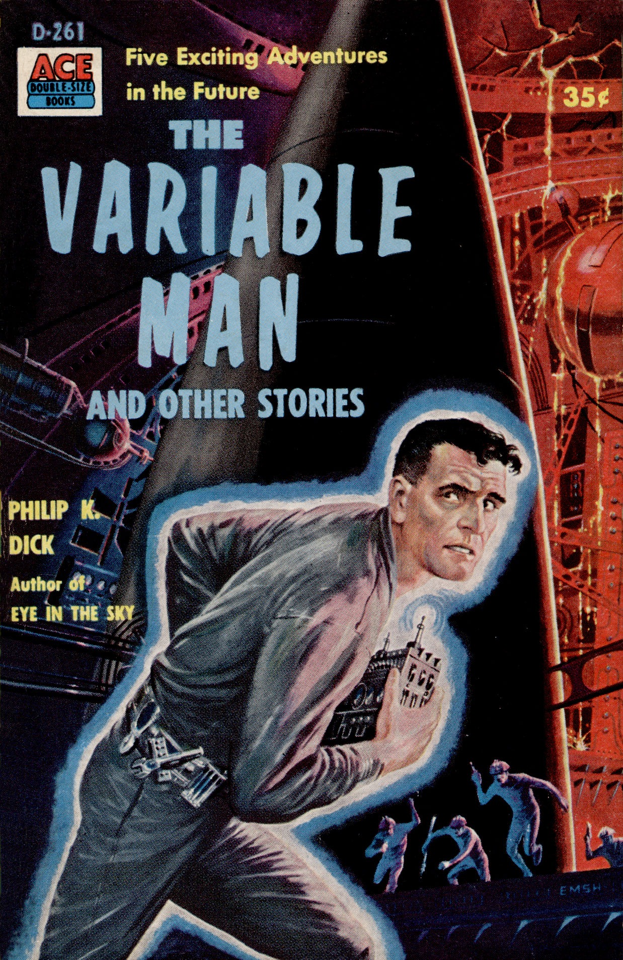 The Variable Man